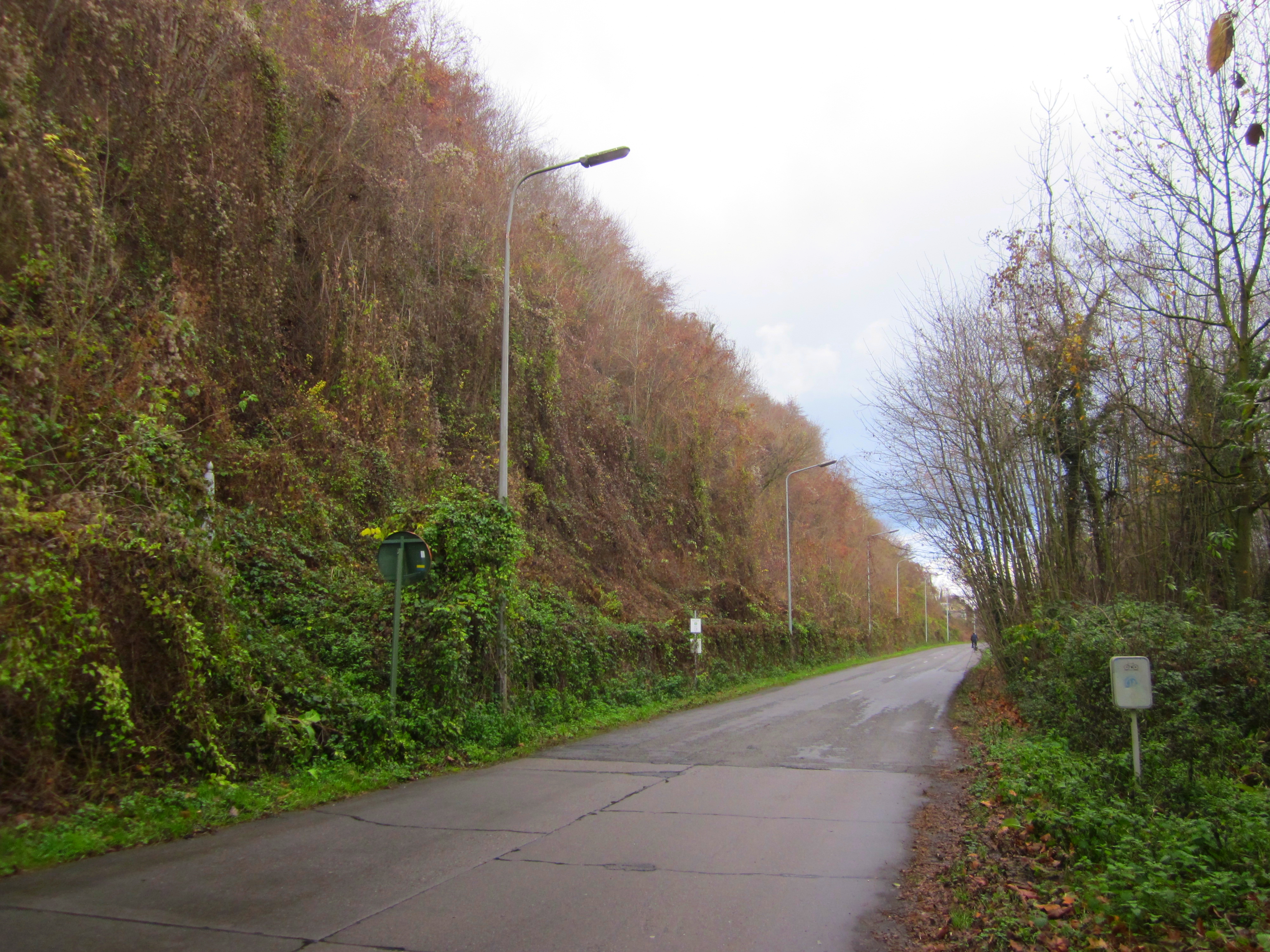 Border between Petit Lanaye (a district of Visé), Belgium (image foreground) and Maastricht, Netherlands (image background).